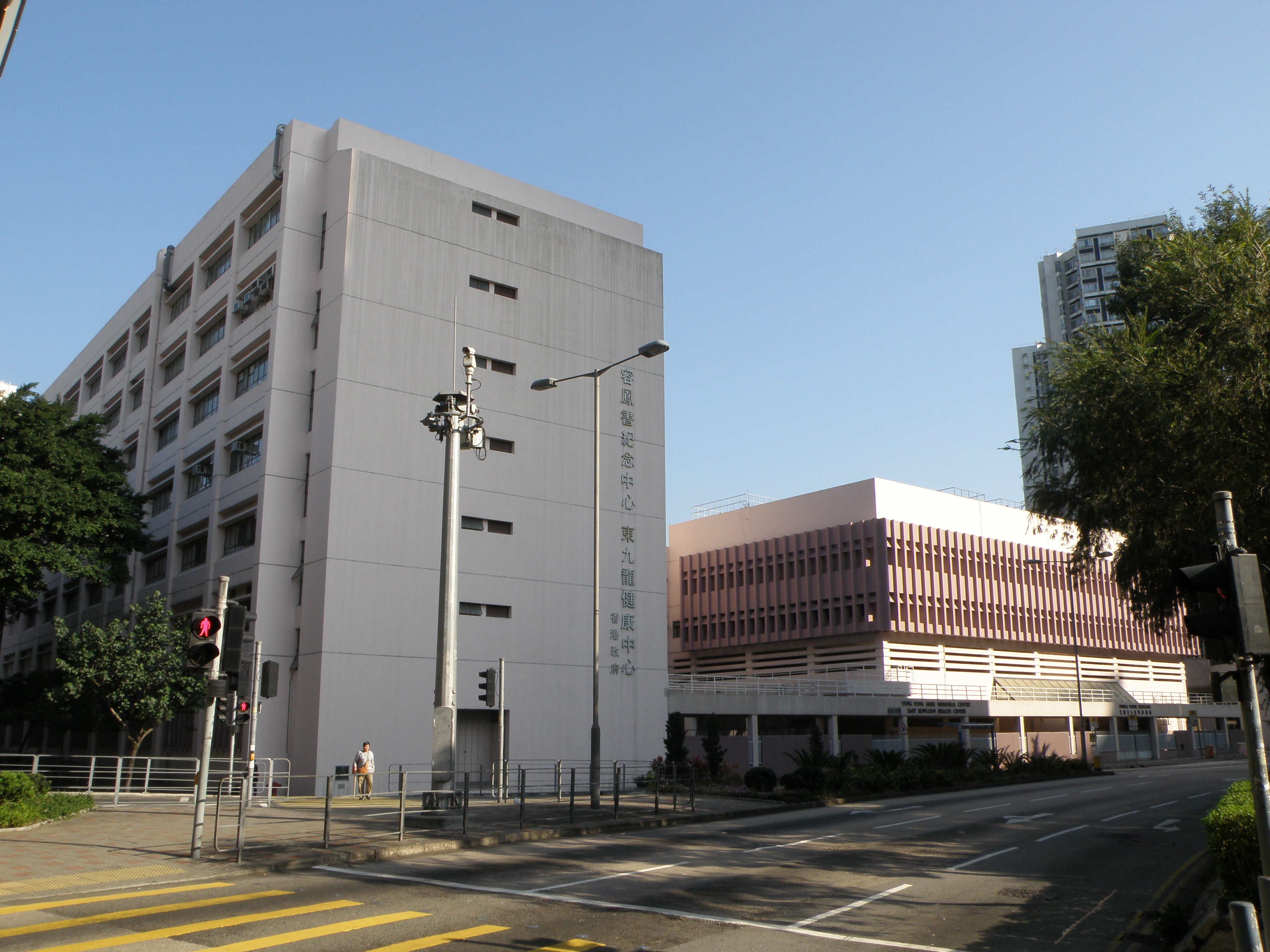 Yung Fung Shee Memorial Centre in Lam Tin, Hong Kong.